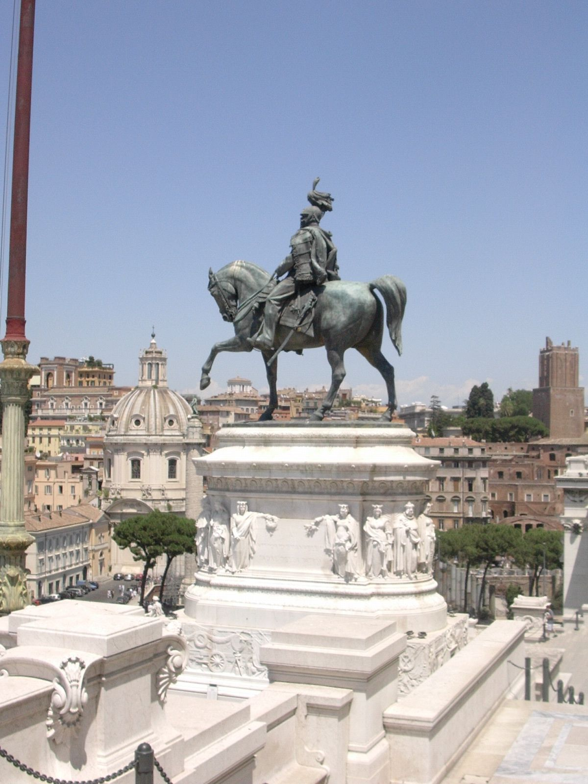 Gilt bronze statue of Vittorio Emanuele II by Enrico Chiaradia (1851-1892) on the Vittoriano.